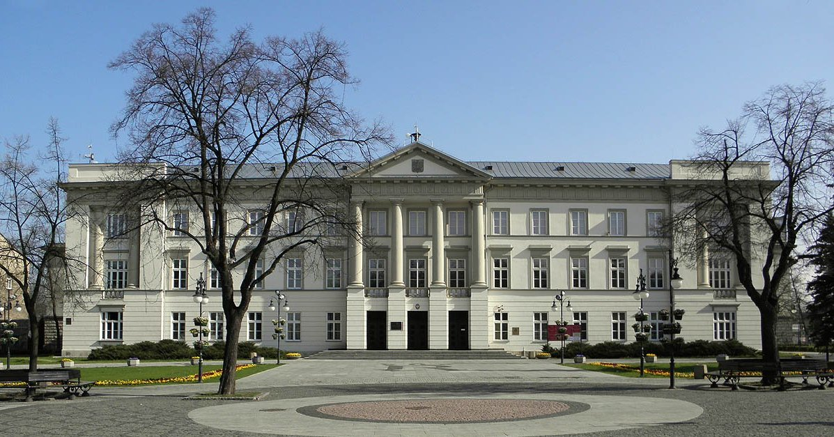 Building of the district council in Radom, Poland